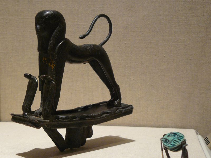 Striding Sphinx, ca. 1295-1185 B.C.E. Bronze, 5 1/2 x 1 5/8 x 5 in. (14 x 4.1 x 12.7 cm). Brooklyn Museum, Charles Edwin Wilbour Fund, 61.20.